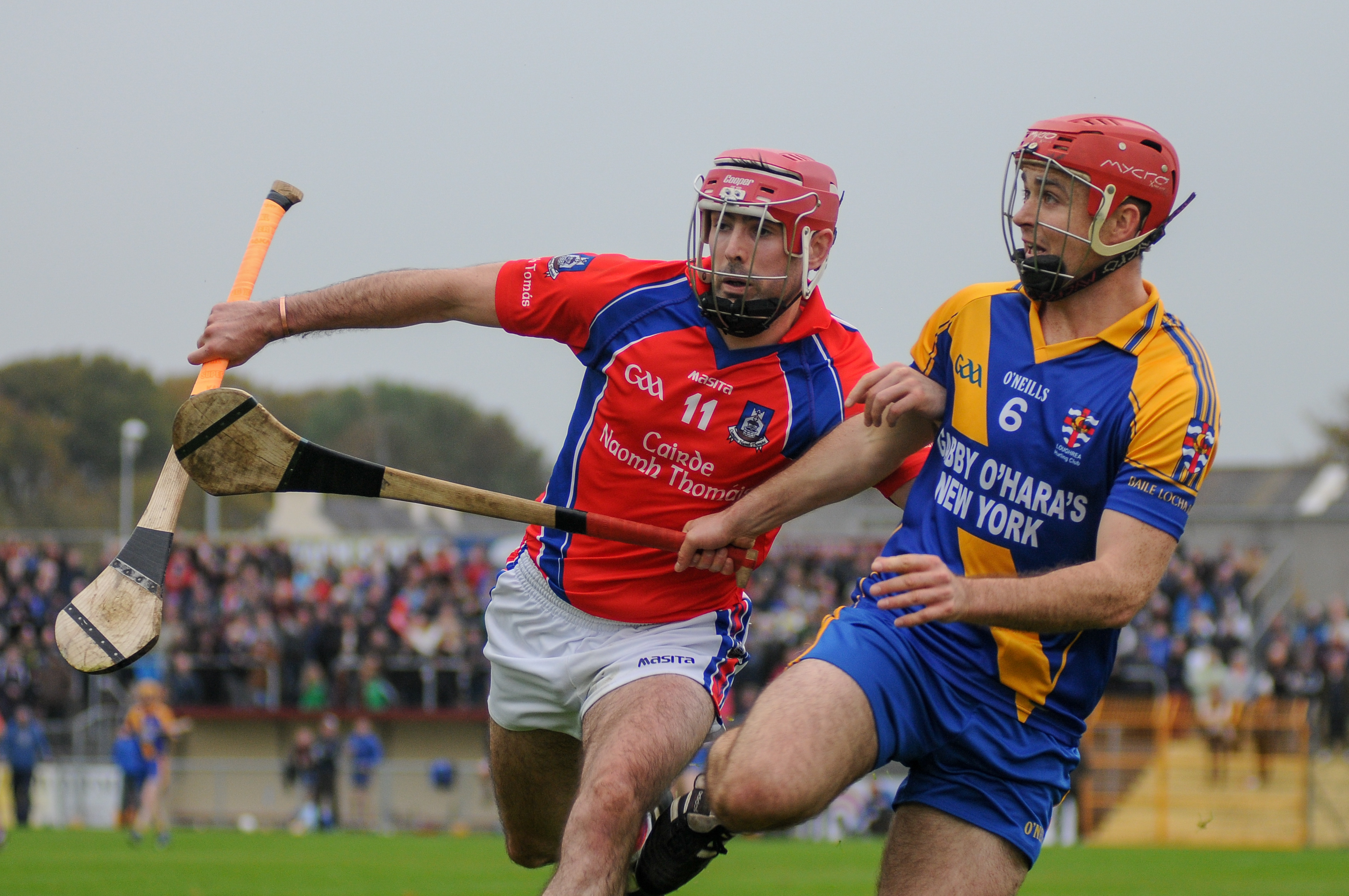 James Regan playing for St. Thomas' and Paul Hoban playing for Loughrea in the 2015 Galway Senior Hurling Championship quarter final replay in Kenny Park, Athenry